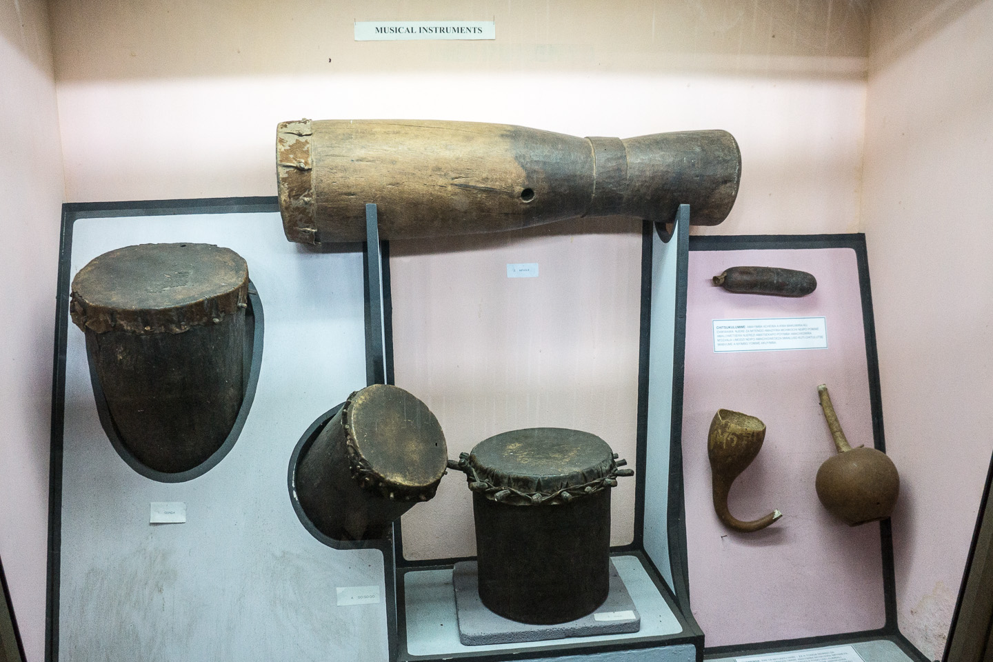 Drums exhibit